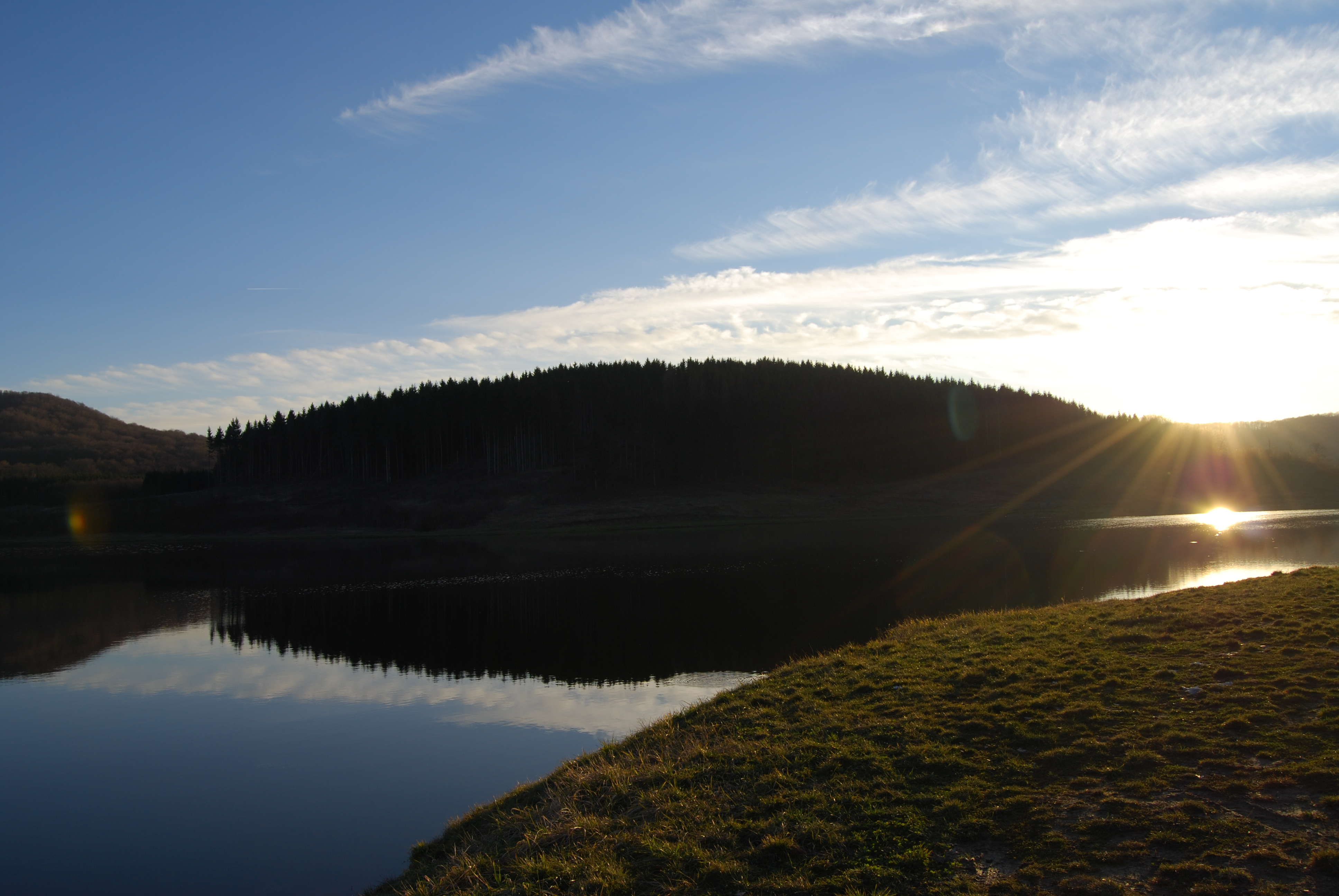 Javorica Lake near Slatina town, Croatia - Google Maps - Google Earth